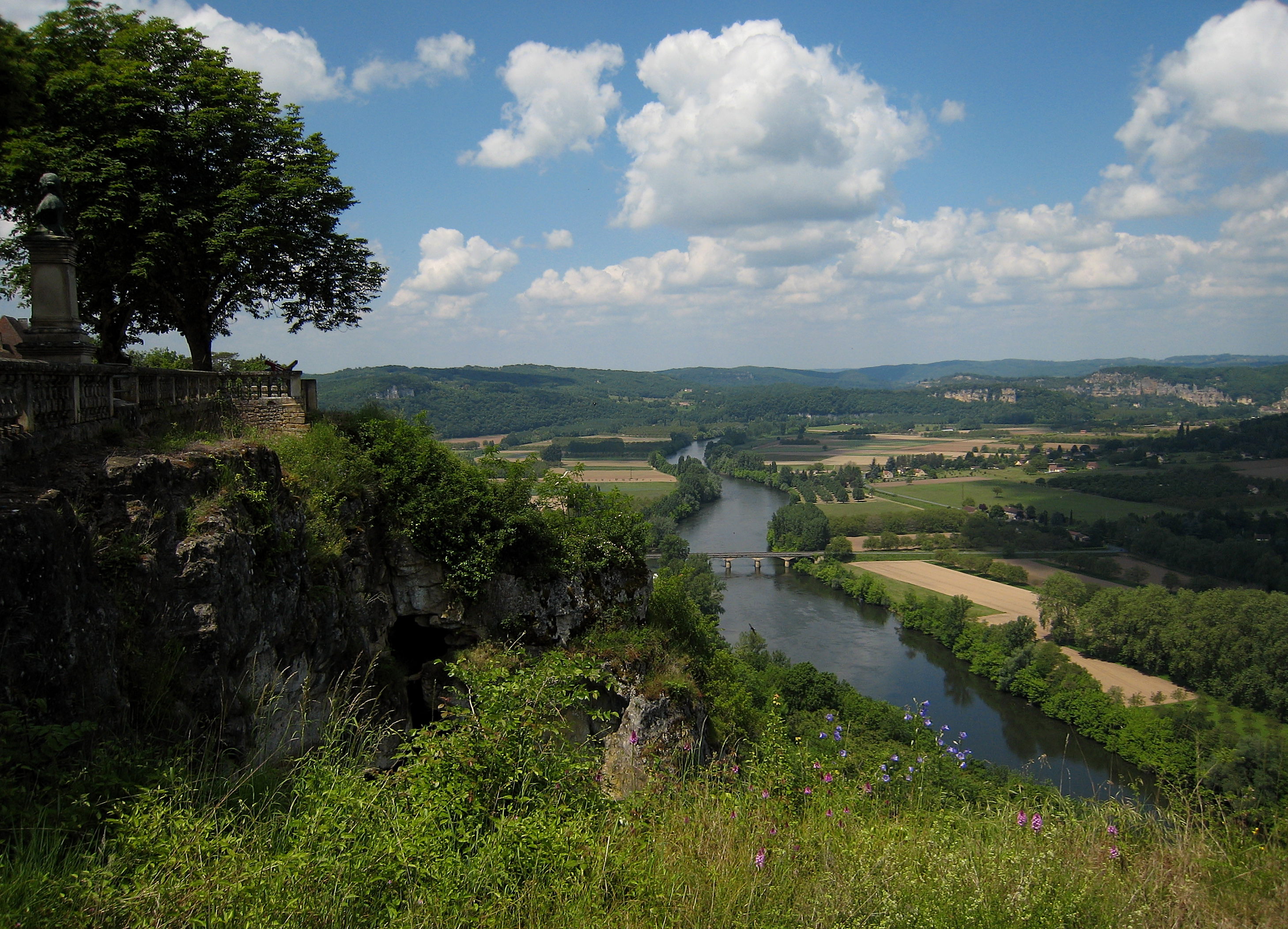 River Dordogne - view from the village of Domme, situated in the Département Dordogne/France